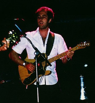 Country guitarist Ray Flacke in “Meal Ticket” (1976)